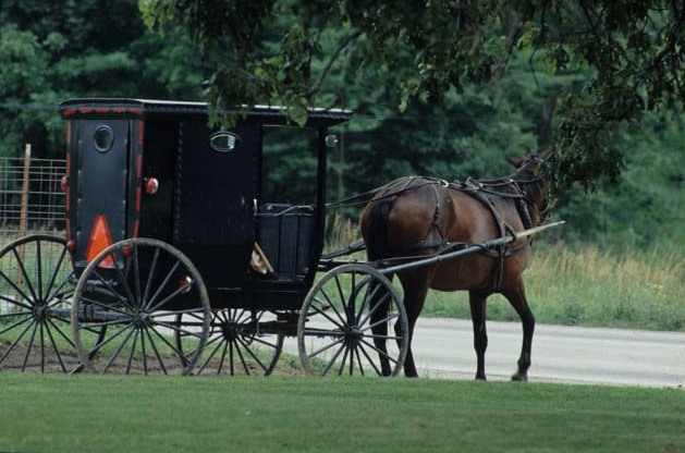 Collection Name: Missouri Division of Tourism Photograph Collection Photographer/Studio: Unknown Description: A horse pulls a covered Amish buggy. Coverage: United States – Missouri - Daviess - Jamesport Date: Not determined Rights: Copyright is in the public domain. Credit: Courtesy of Missouri State Archives Image Number: 003_107 Institution: Missouri State Archives